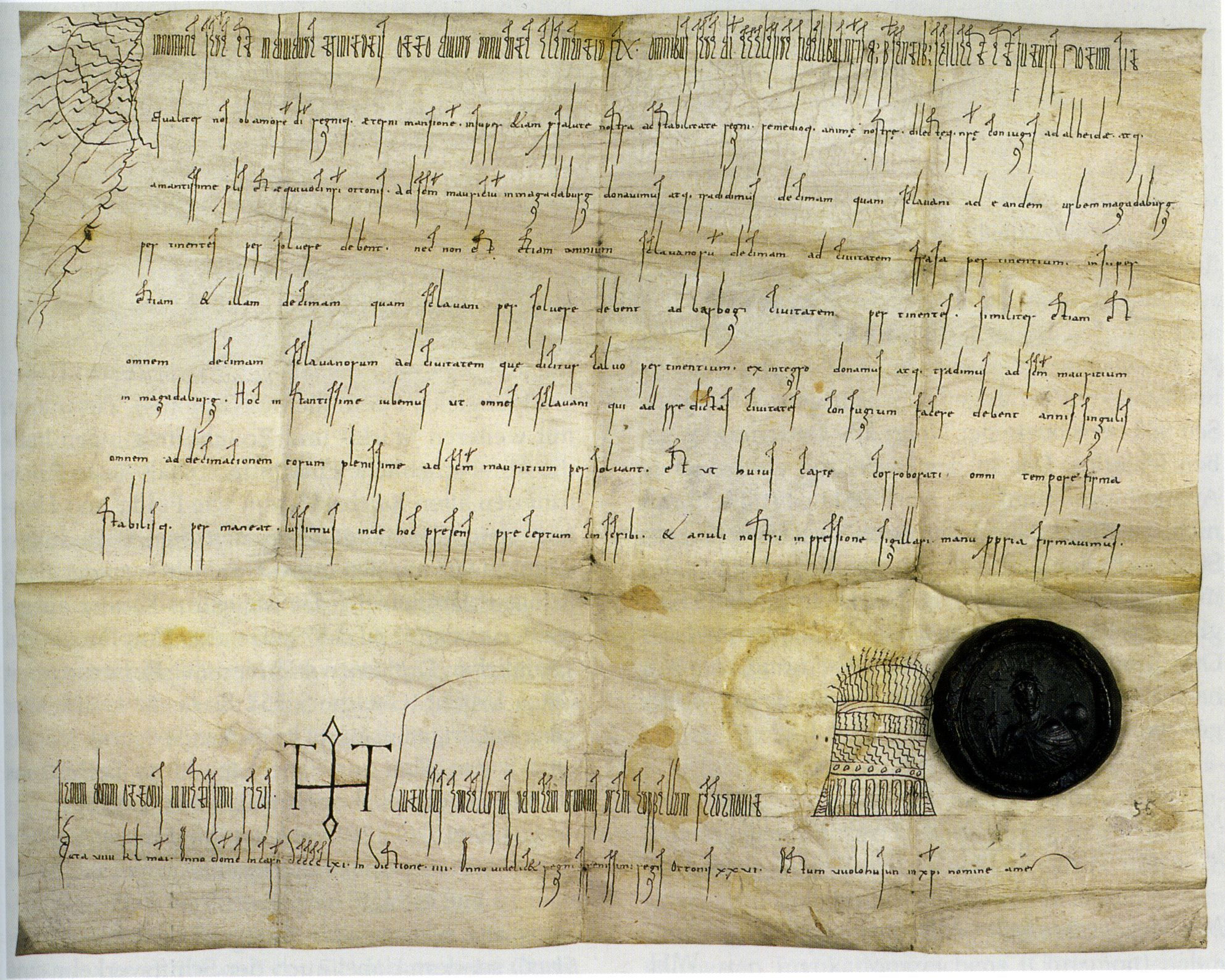 A charter of emperor Otto I. for the monastery of Saint Maurice at Magdeburg, issued on April 23rd, 961.